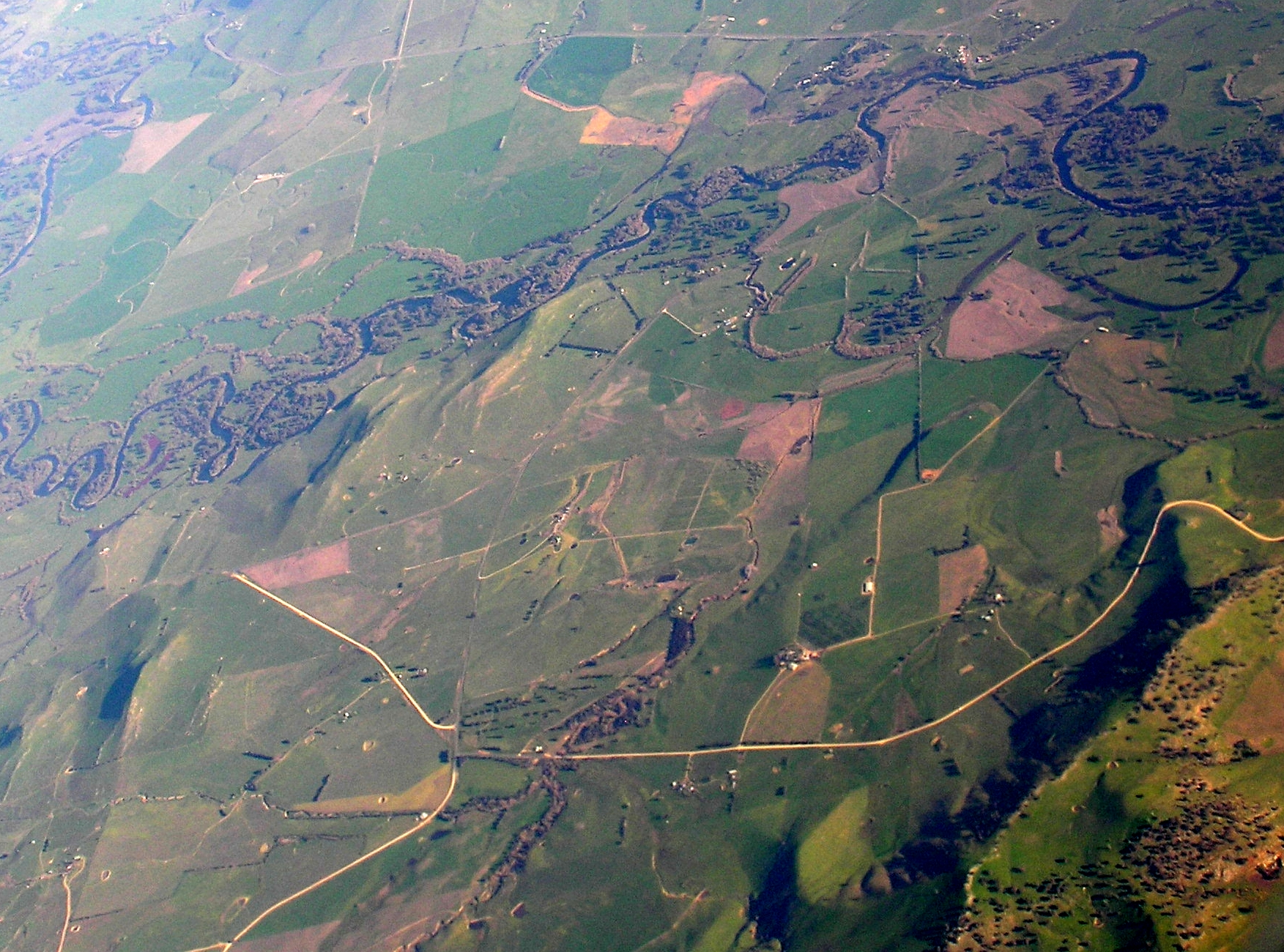 Aerial view of Welaregang in New South Wales with Tintaldra Victoria Australia in the Background. Murray River is here too